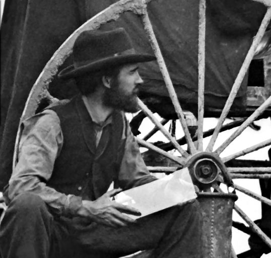 David B. Woodbury, cropped portrait from original wet-plate negative